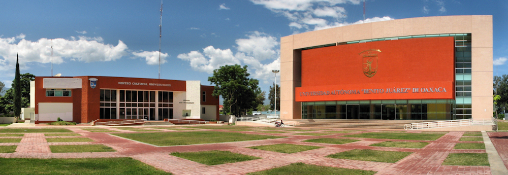 Panoramic photo of the Centro Cultural Universario building and the Rectoria at the Universidad Autónoma "Benito Juárez" de Oaxaca in Oaxaca, Mexico